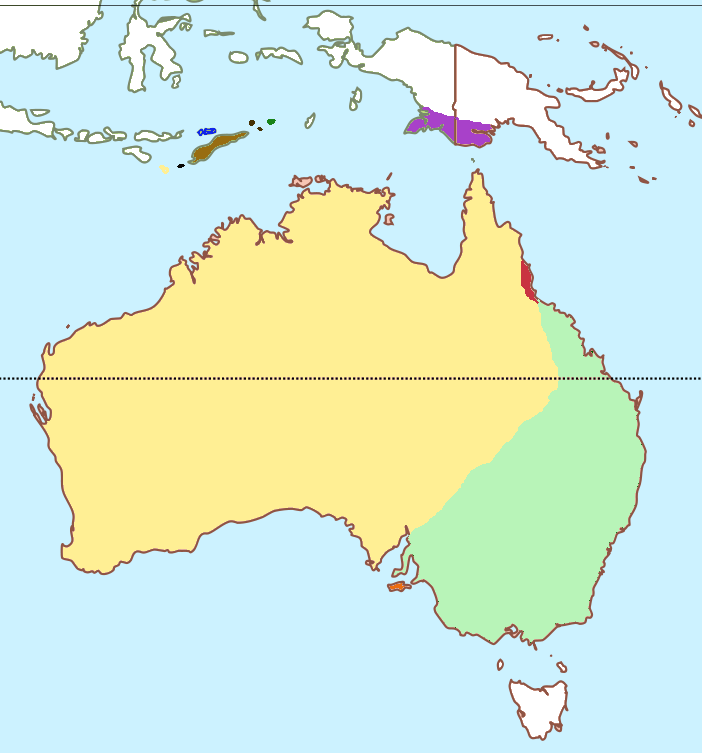 Distribution map of southern boobook (Ninox boobook) and its subspecies. file Oceania continents.svg is basis for the base map. Ranges of subspecies takne from Gwee, Chyi Yin (2017). "Bioacoustic and multi-locus DNA data of Ninox owls support high incidence of extinction and recolonisation on small, low-lying islands across Wallacea". Molecular Phylogenetics and Evolution 109: 246–58. Legend - N.b.boobook - pale green, N.b.ocellata - cream, N.b.halmaturina - orange, N.b.lurida - red, N.b.fusca - brown, N.b.pusilla - purple, N.b. plesseni - royal blue, N.b.rotiensis - black, N.b.moae - dark brown, N.b.cinnamomina - dark green.